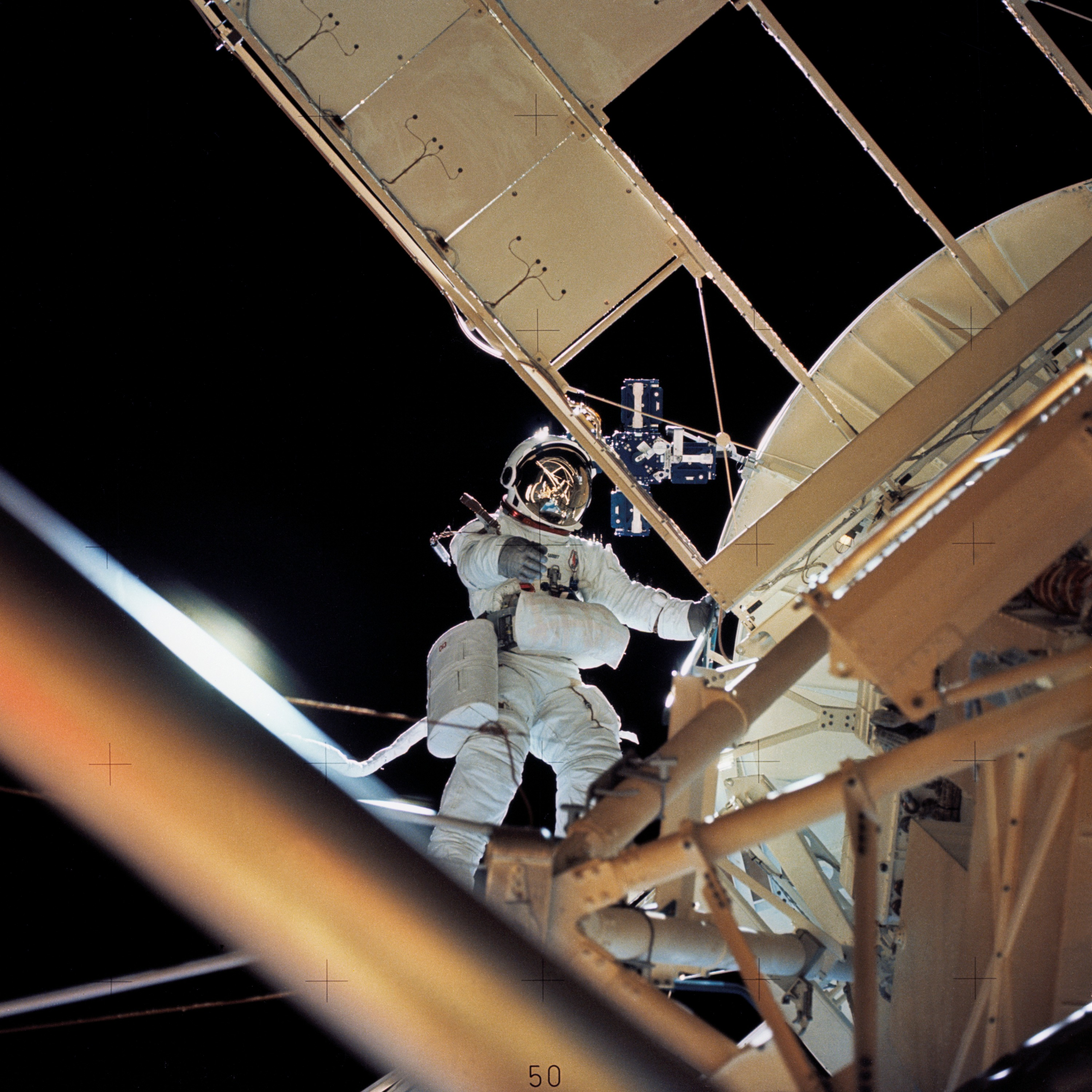 Scientist-astronaut Owen K. Garriott, Skylab 3 science pilot, is seen performing an extravehicular activity at the Apollo Telescope Mount (ATM) of the Skylab space station cluster in Earth orbit, photographed with a hand-held 70mm Hasselblad camera. Garriott had just deployed the Skylab Particle Collection S149 Experiment. The experiment is mounted on one of the ATM solar panels. The purpose of the S149 experiment was to collect material from interplanetary dust particles on prepared surfaces suitable for studying their impact phenomena. Earlier during the EVA Garriott assisted astronaut Jack R. Lousma, Skylab 3 pilot, in deploying the twin pole solar shield.